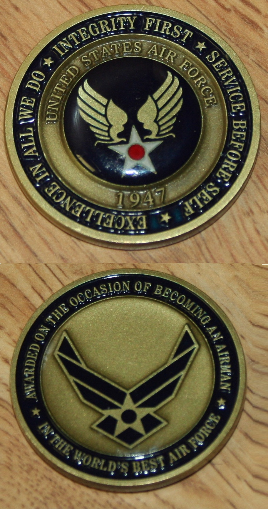 Original U.S. Air Force challenge coin at top, modern U.S. Air Force challenge coin at bottom. Original owner of coin and photo is strickjh2005.